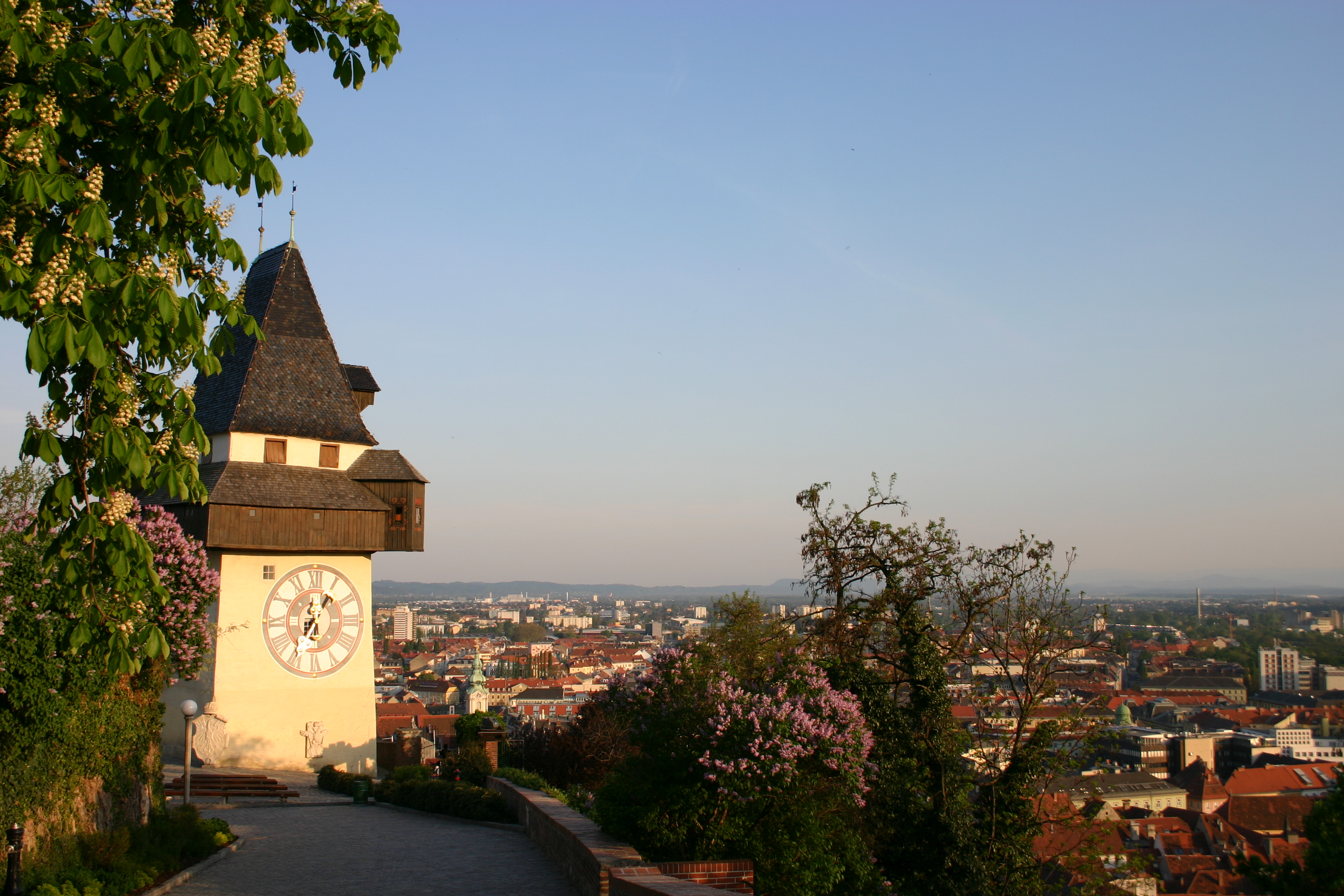 Description: Clock Tower in Graz/Austria. Source: Own Photo, May 2005 Photographer: Philipp Steiner